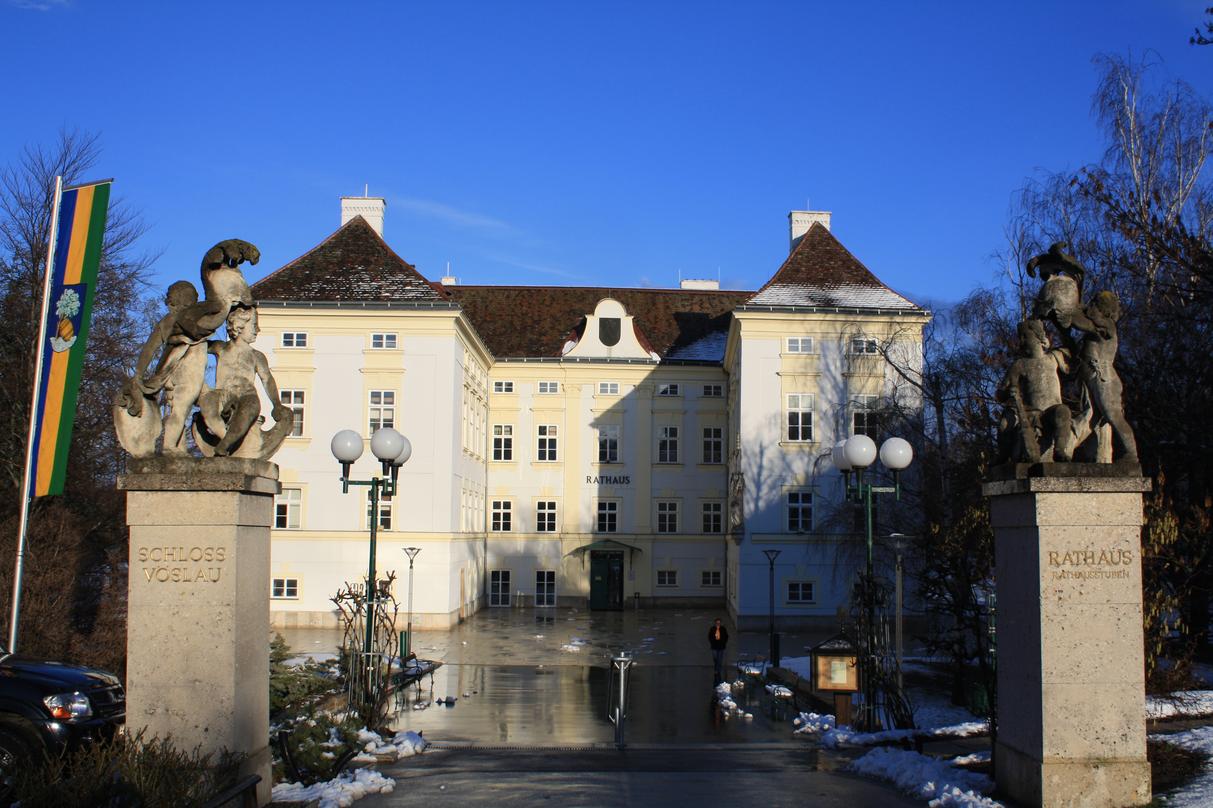 Castle in Bad Vöslau, Lower Austria